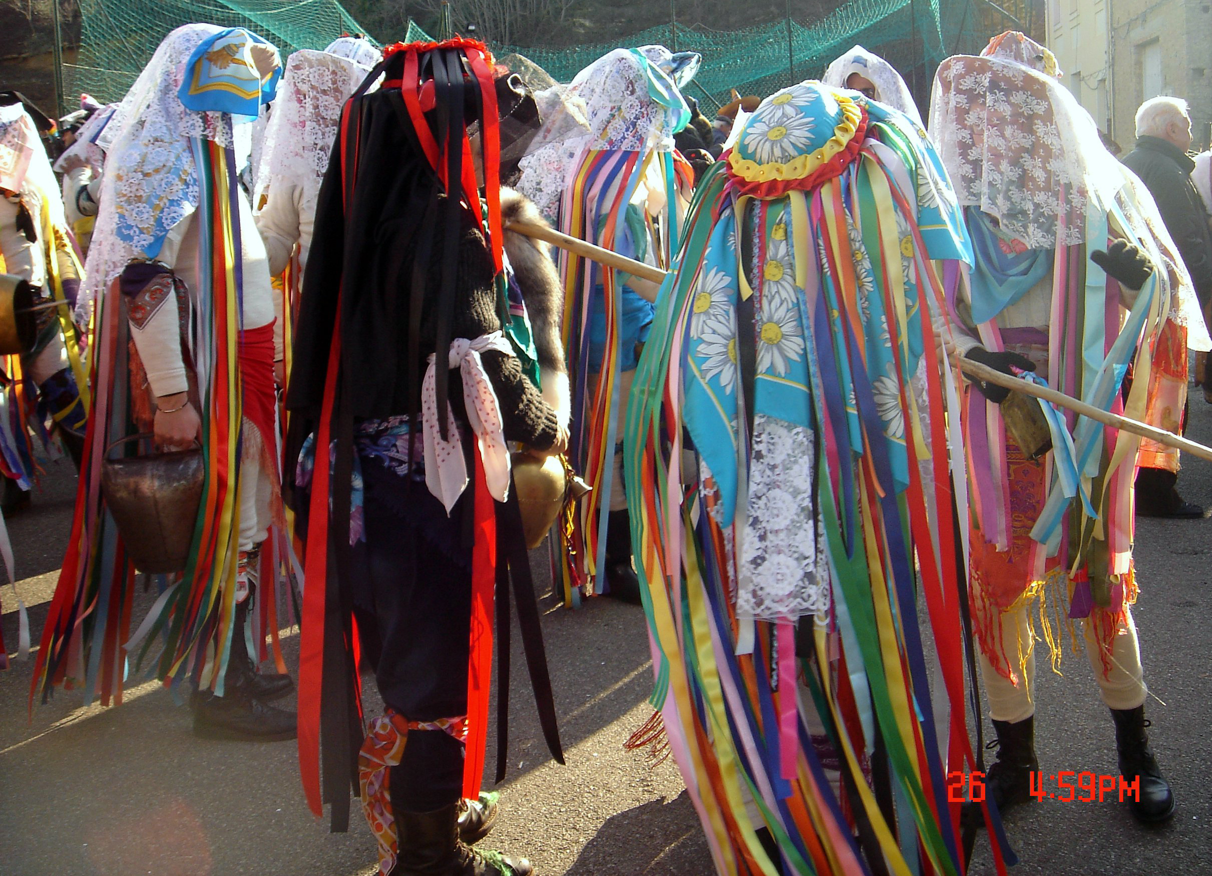 Typical masquerade in Tricarico.